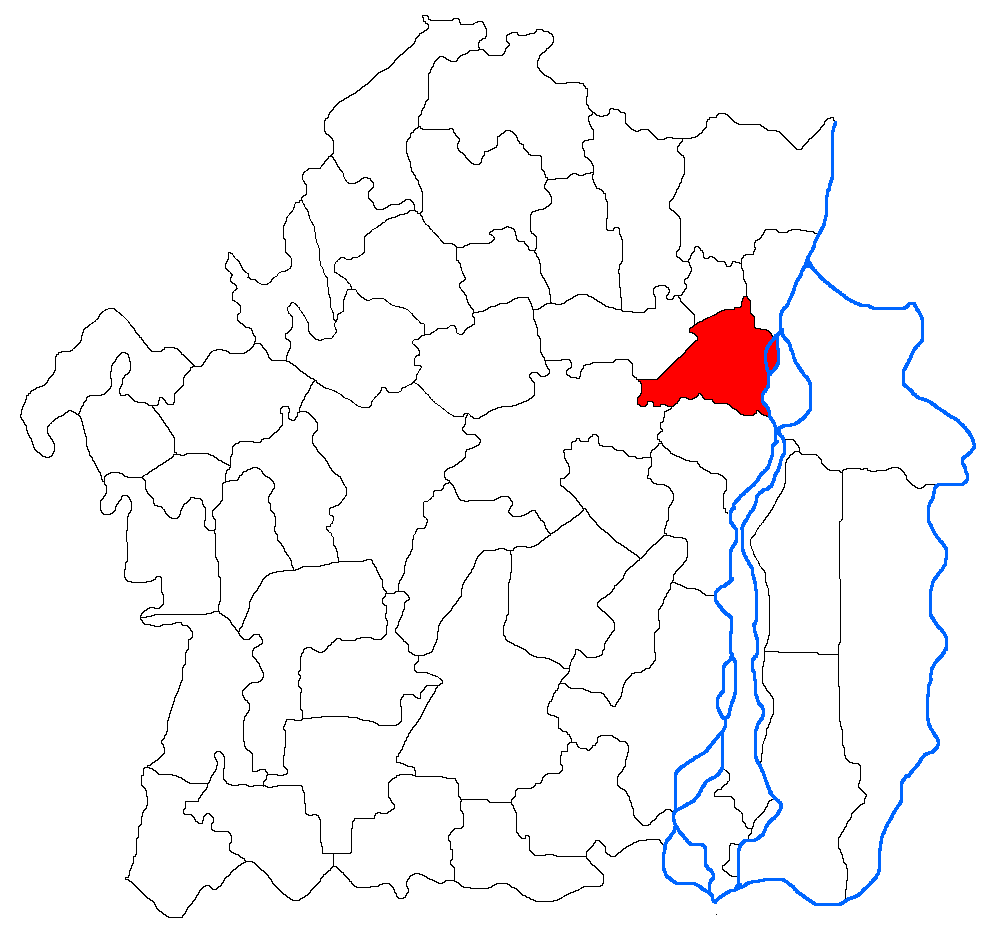 Limits of Commune of Chiscani in Braila County